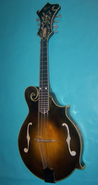 A Glenn F5 Fern mandolin, #66, vertically aligned (portrait view).